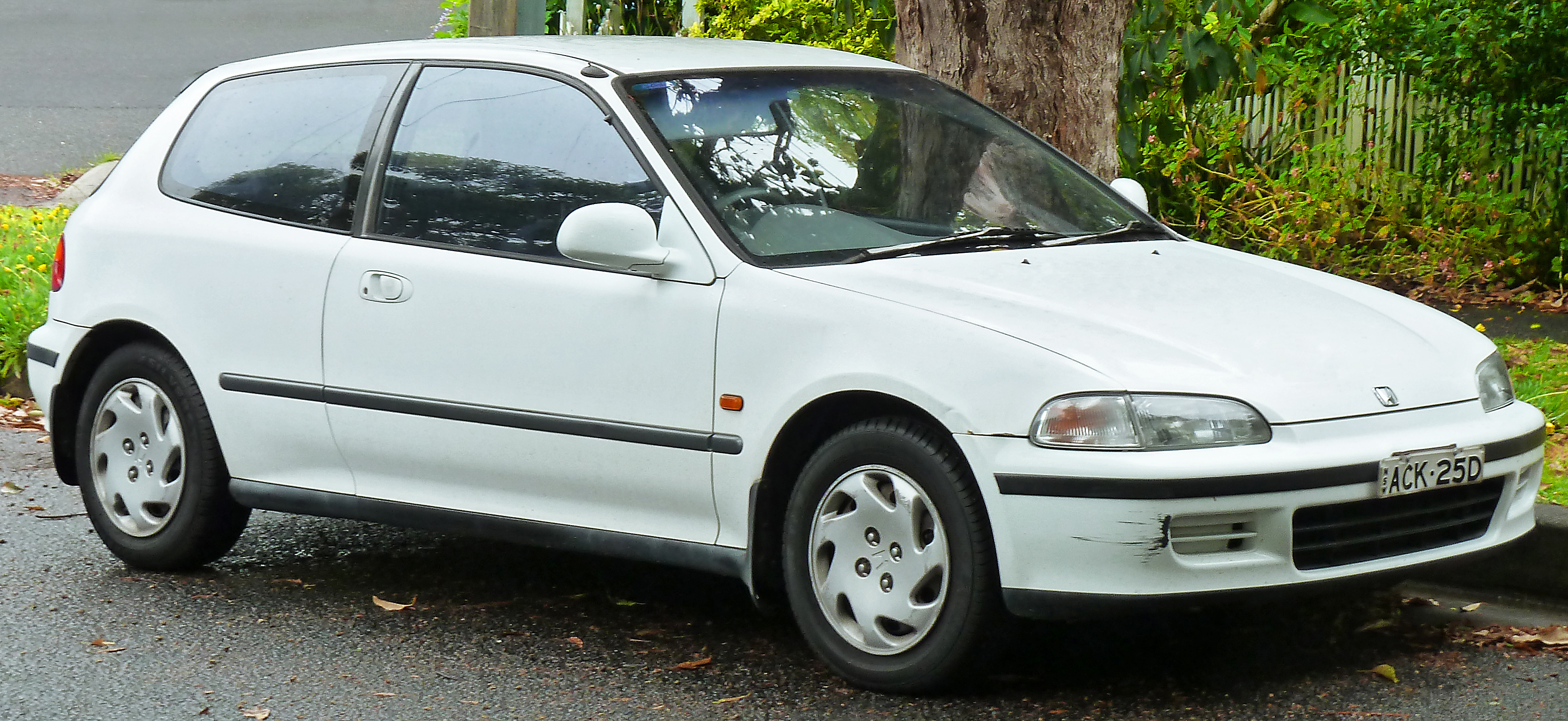 1994 Honda Civic GLi 3-door hatchback. Photographed in Roseville, New South Wales, Australia.